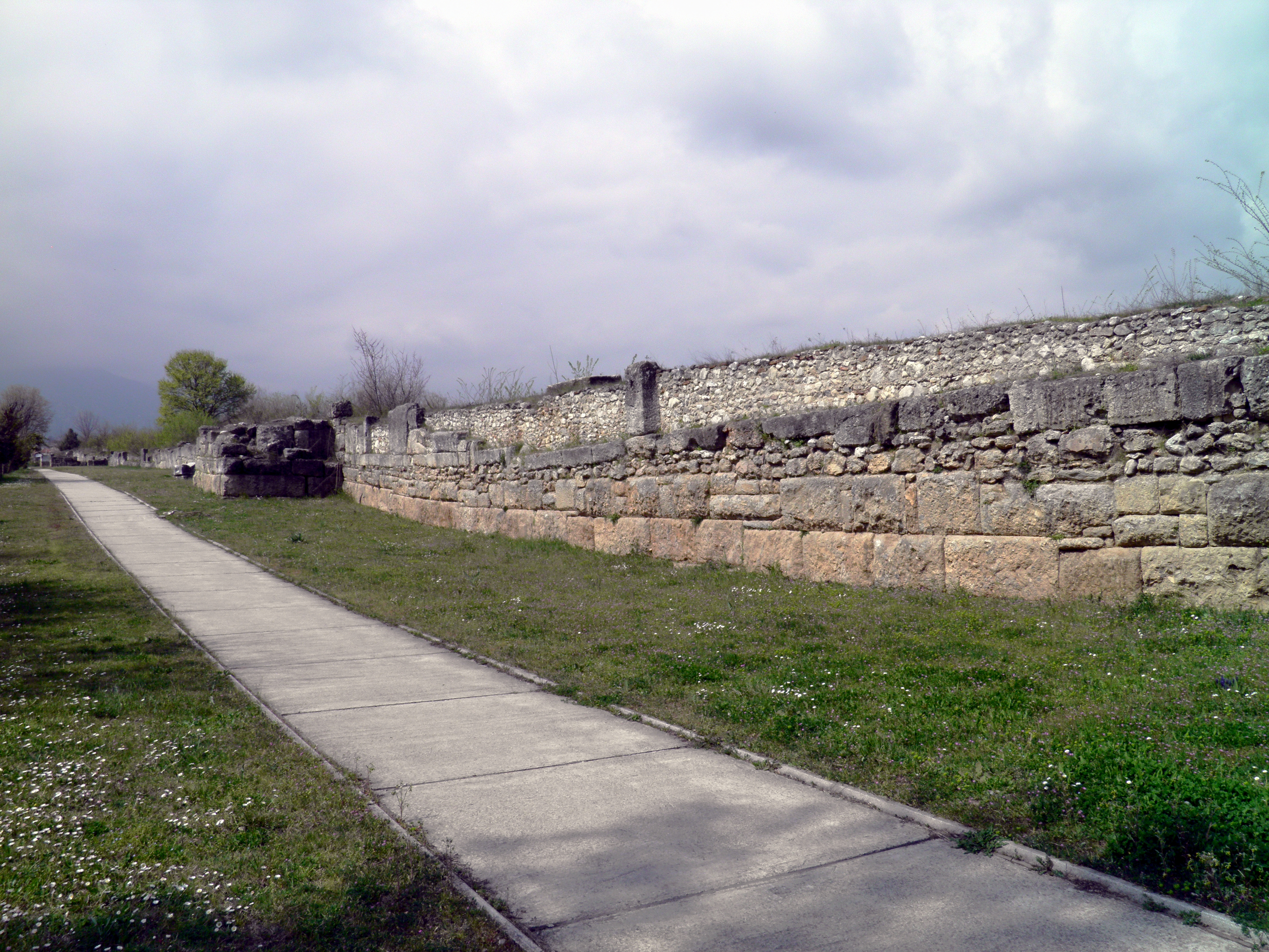 The earliest phase of the defensive wall is dated to the reign of the Macedonian King Kassander. The fortified enceinte wsa of rectangular, almos square plan and the area into muros was approximately 43 hectares. The foundation of the wall followed the configuration of the ground, which sloped appreciably from west to east. Two or three coures of conglomerte stones from Olympus were laid upon the euthynteria. At 33-metre intervals stood a square tower (7x7m), incorporated in the wall. Additional defensive work, such as the moat, reinforced the protection of the city. On the east of the wall, where the Vaphyras flowed, there were very possibly riverine harbour installations. The early Hellenistic fortification of Dion was destroyed during the Aetolian invasion in 219 BC, but was reconstructed immediately after by Philipp V. In Roman times the greater part of the brick-built upper structure of the wall collapsed. Indeed, part of the south side was demolished, in order to built the great baths there. The wall was repaired once more in th mid-3rd century AD, to protect the city from the incursions of barbarian tribes. In this phase the east side was shifted westwards, because of the displacements of the bed of River Vaphyras. The late Roman enceinte was 2,800 meters in perimeter and enclosed an area of 37 hectares. Earlier architectura members (spolia), funerary altars and fragment of sculptures of various periods were used as building material. The walls of Dion were repaired for the last time between AD 365 and 380. A cross wall was built on the north and the east side which limited the area of the city to 16 hectares and the circuit of the wall to 1,595m. The final walls of Dion were destroyed in the mid-5th century AD, probably by earthquake.